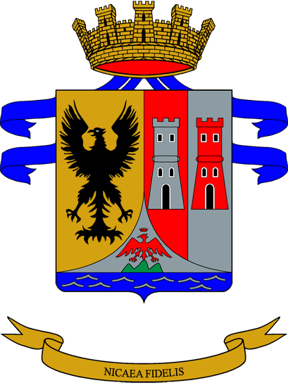 Coat of Arms of the 1° Cavalry Regiment; Italian Army.